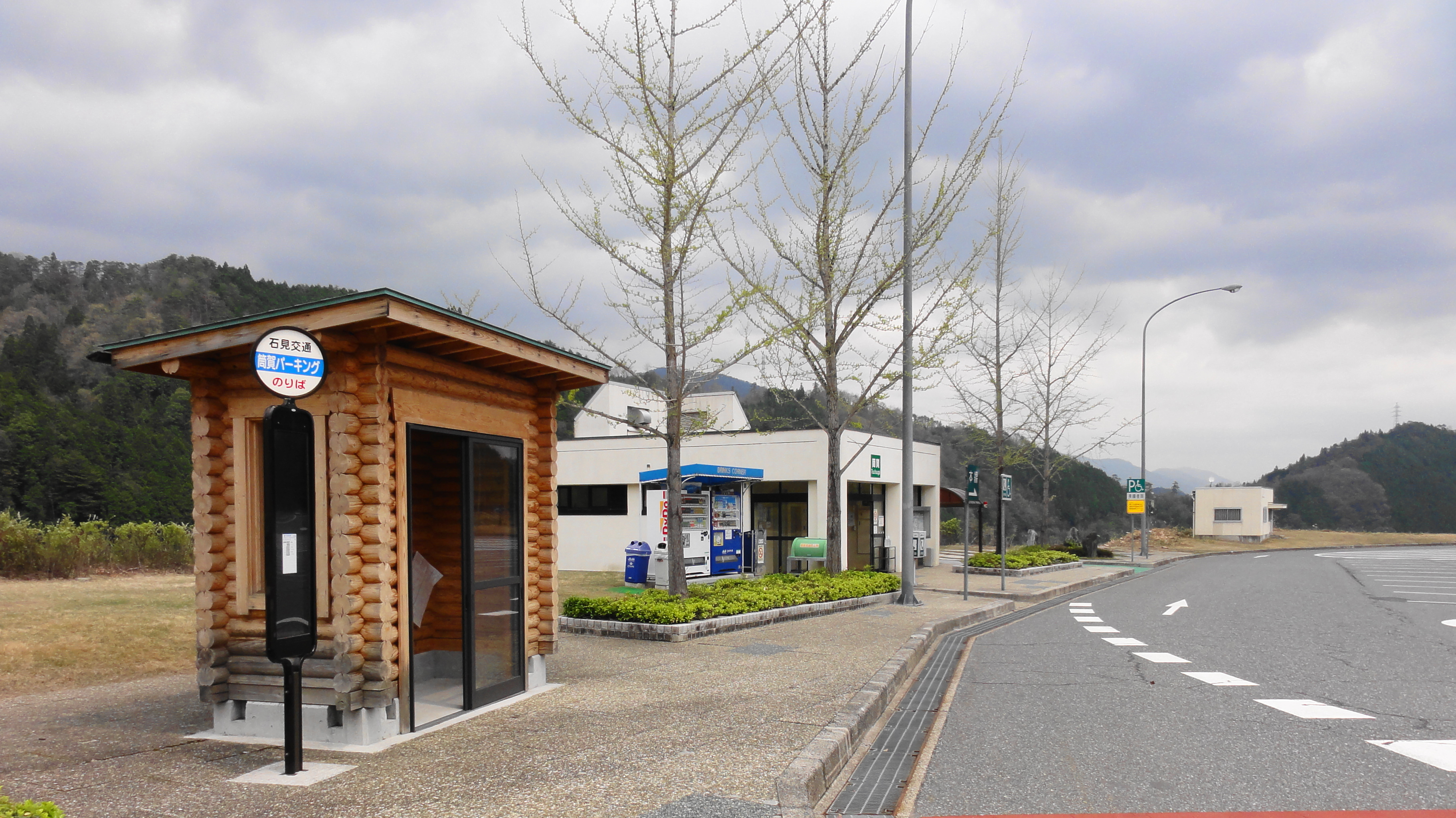 Tsutsuga Parking Area,Hiroshima prefecture,Japan